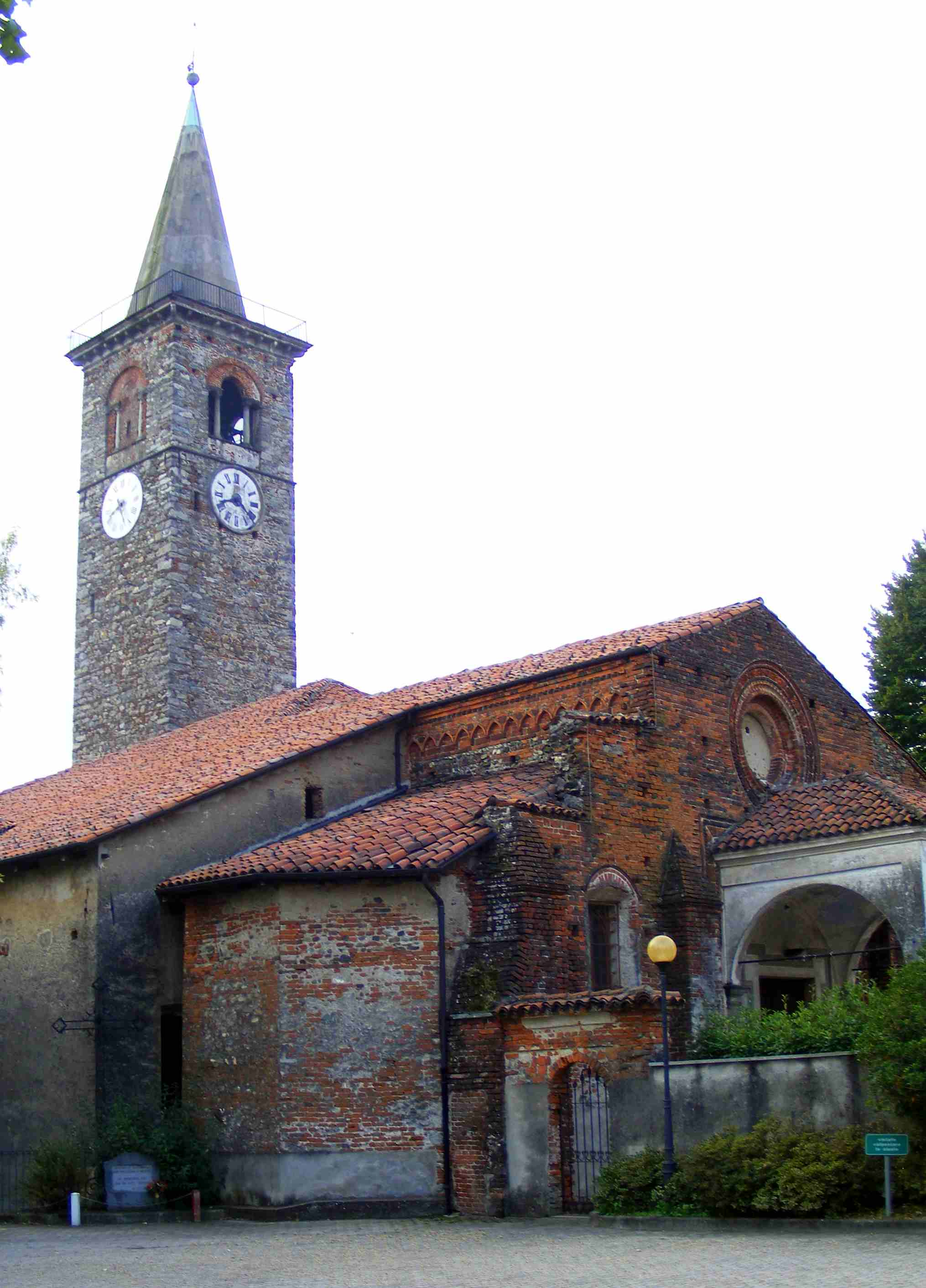 Salussola (BI, Italy): Santa Maria Assunta church